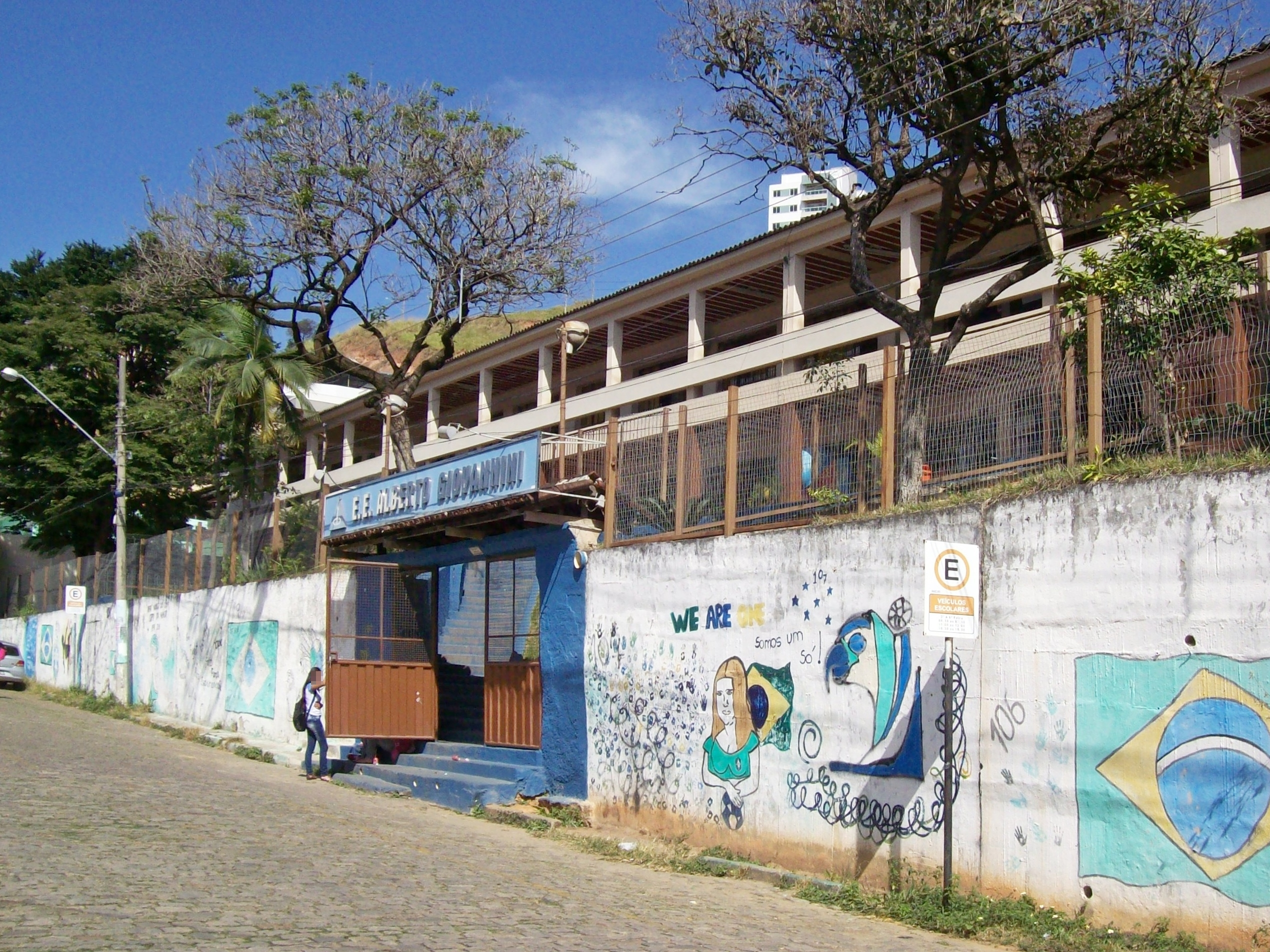 Front of the Alberto Giovannini estadual school, in Coronel Fabriciano, Minas Gerais, Brazil.